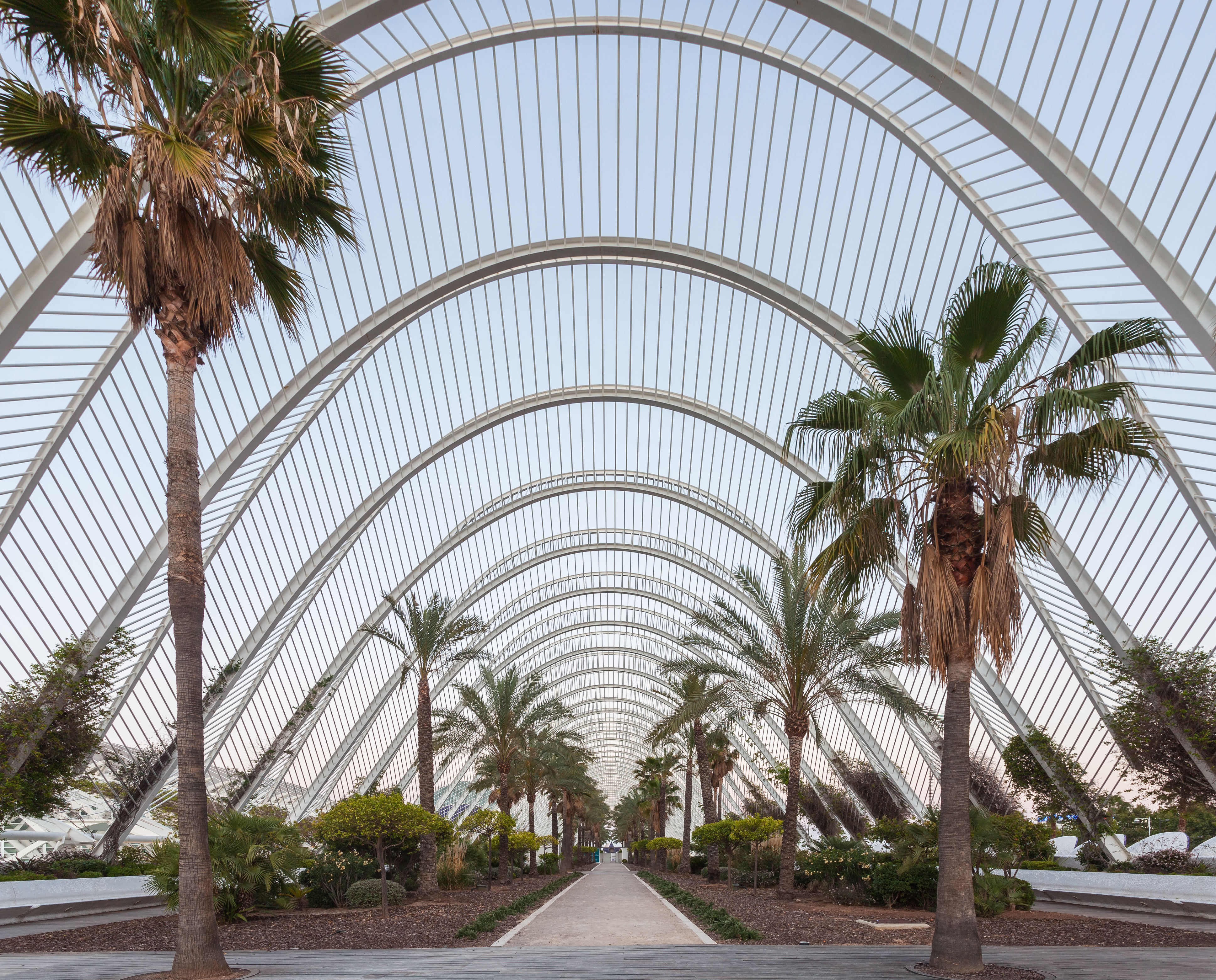 The Shade House, City of Arts and Sciences, Valencia, Spain